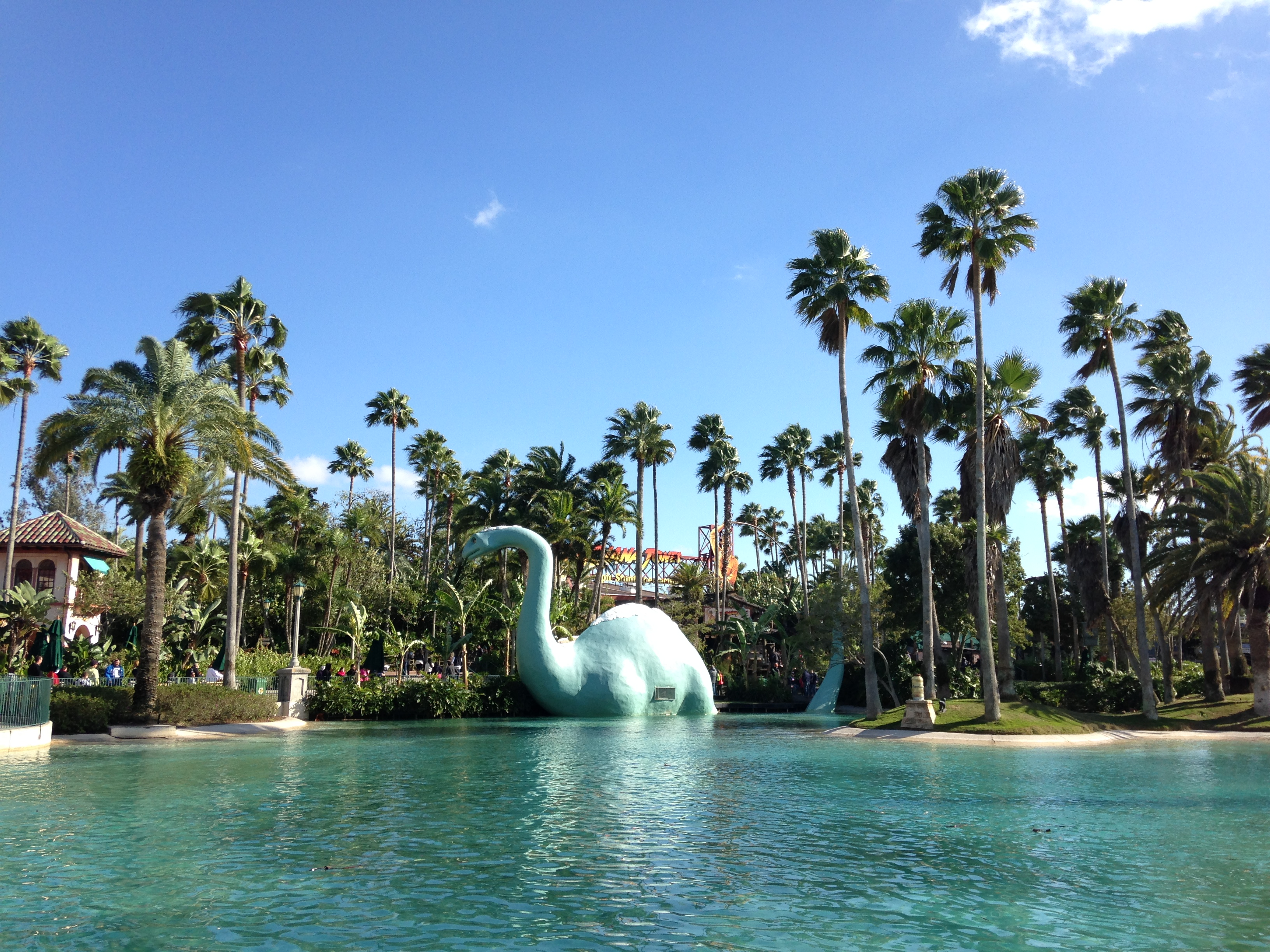 Echo Lake section of Disney's Hollywood Studios